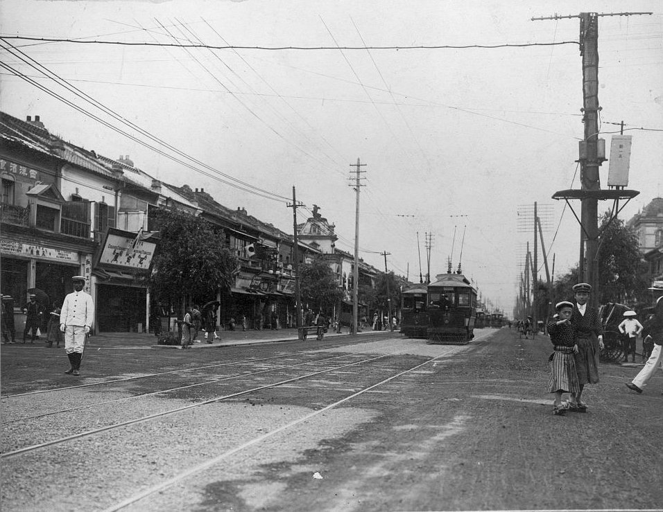 View down Tokyo street with tram cars in center background. The exact location is Takekawa-cho, Kyobashi-ku, Tokyo, or Ginza 7-chome in modern address. (The tiff file of the source shows sign of Hizenya to the left with address "11 Takekawa-cho".)